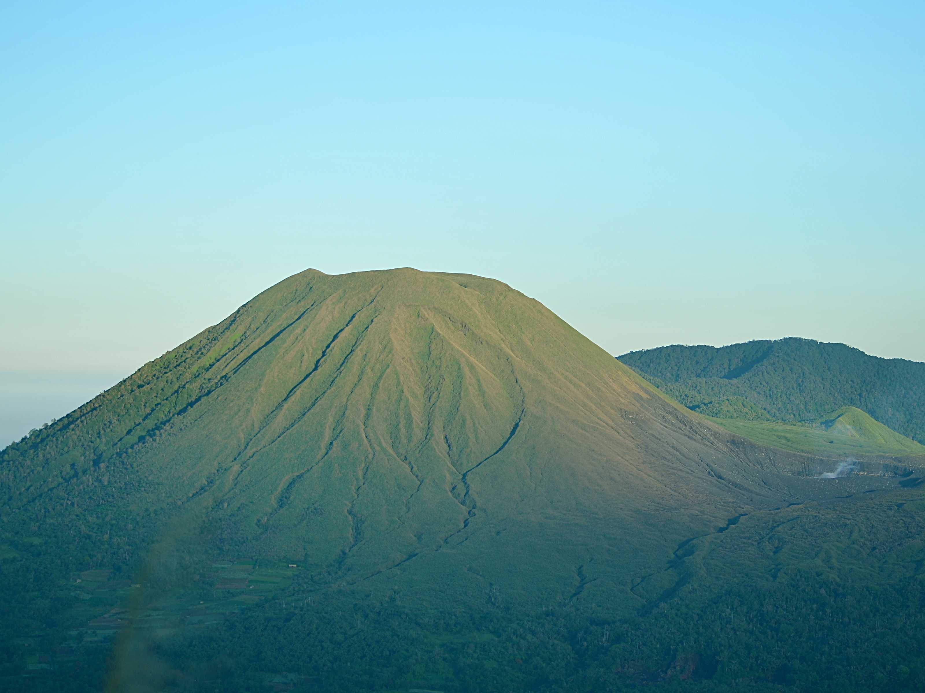 Mt. Lokon view from Mt. Mahawu